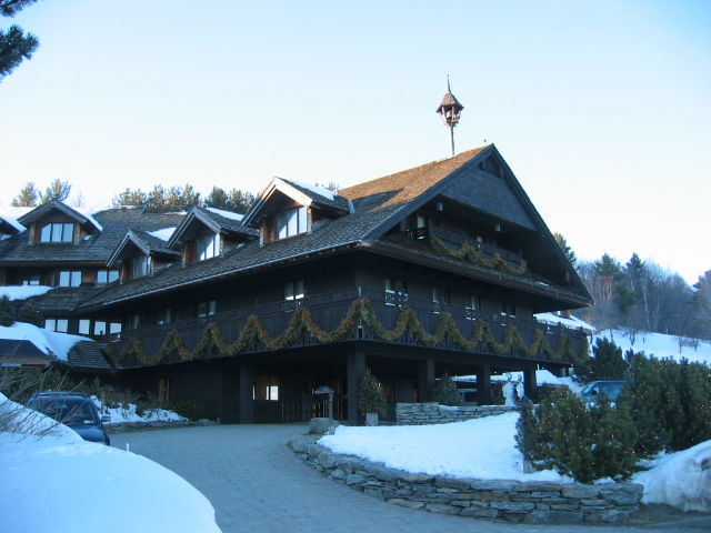 The Trapp Family Lodge in Stowe.